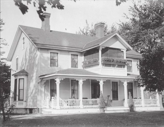 River Lea house built by Lewis F. Allen for his son William and his bride around 1849.